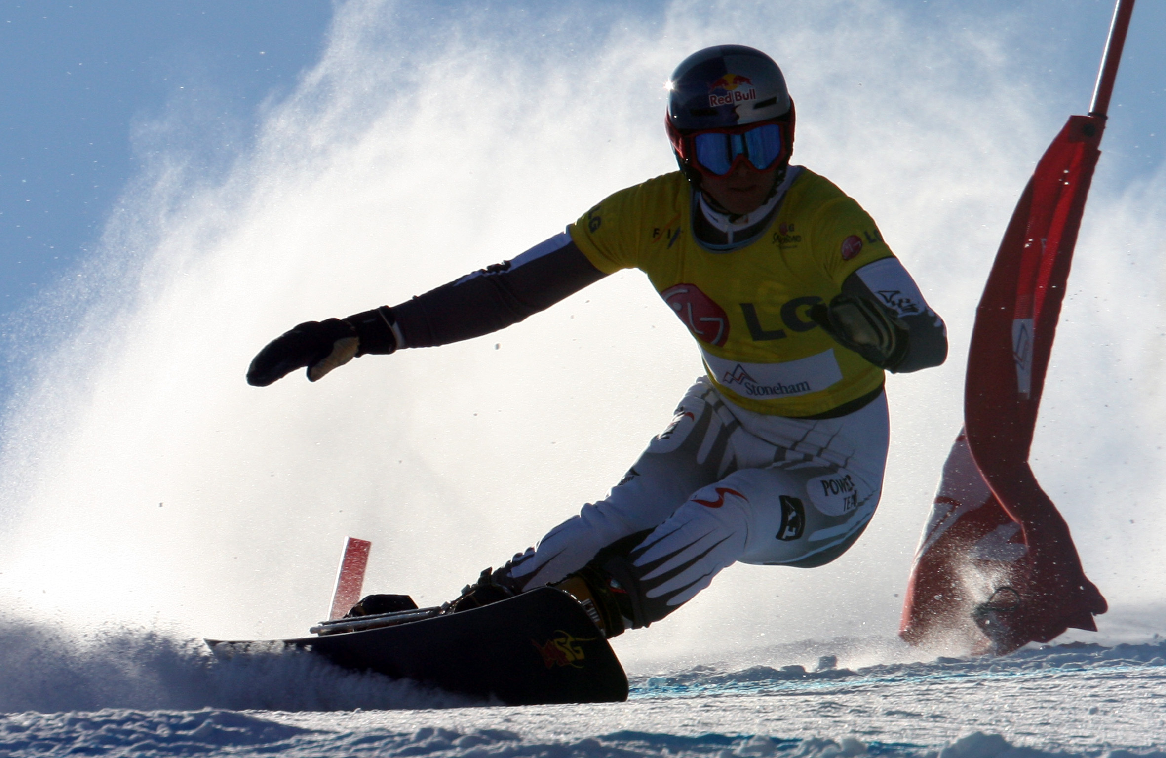 LG Snowboard FIS World Cup